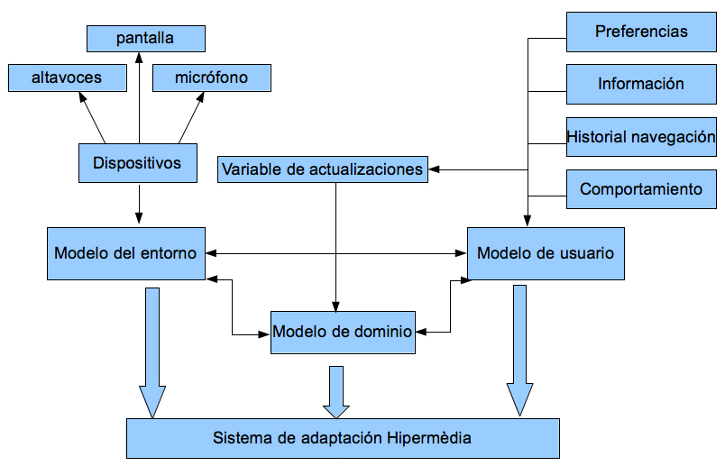 Conceptual map of adaptative hypermedia